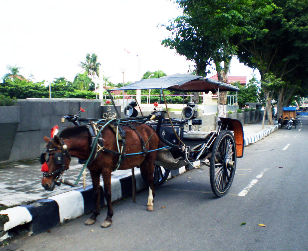 Delman in Blitar, East Java, Indonesia.